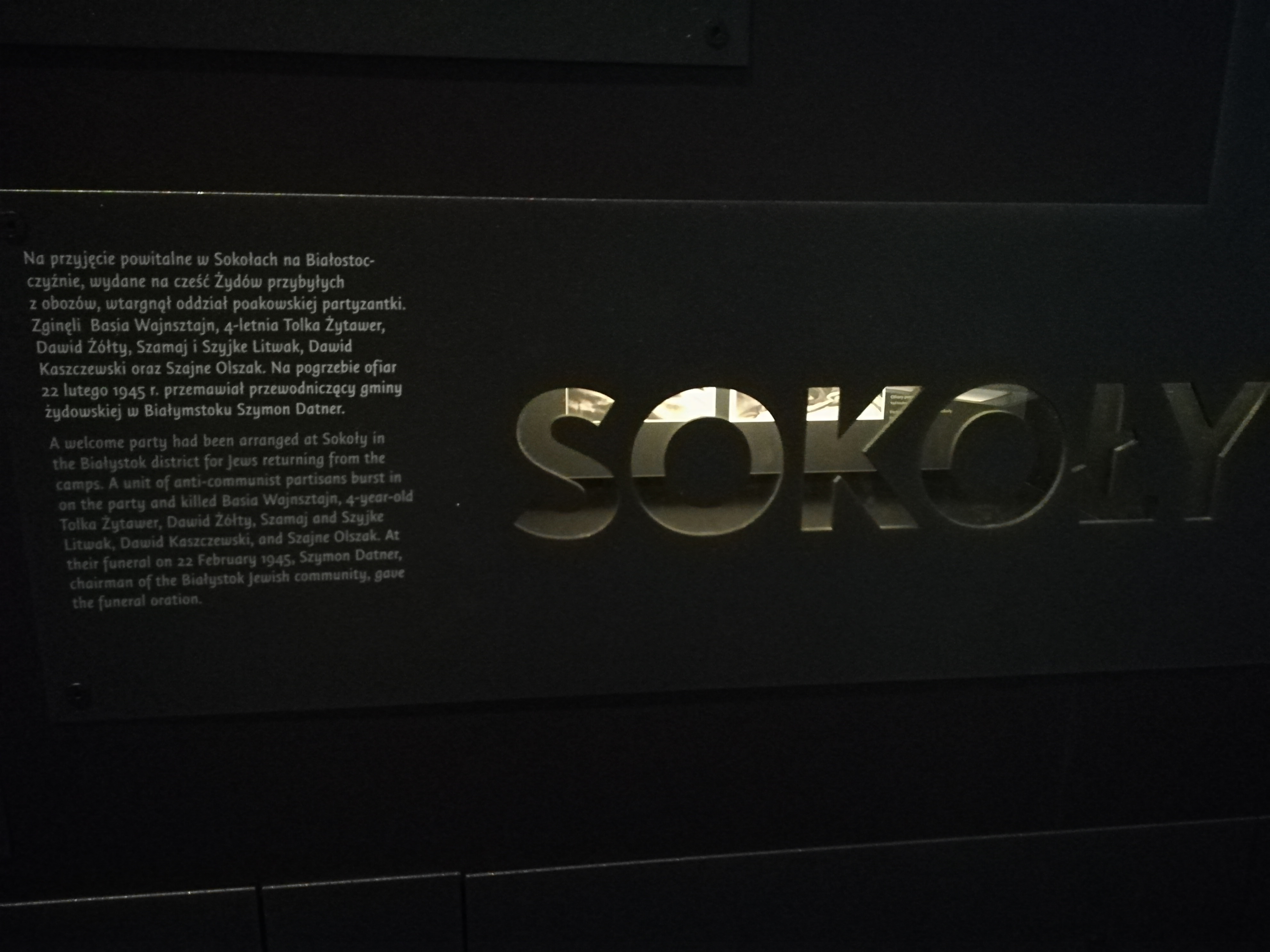 POLIN Museum of the History of Polish Jews: The memorial commemorating Jews killed by Poles in Sokoly.